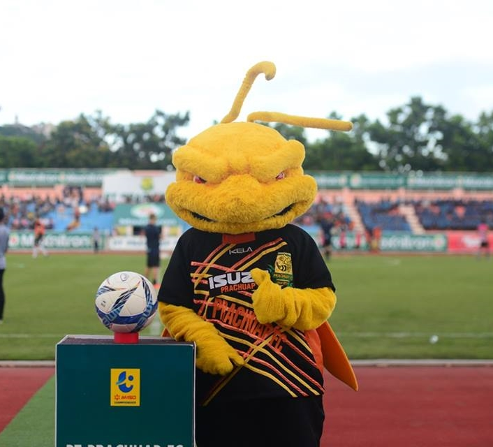 Prachuap FC Mascot